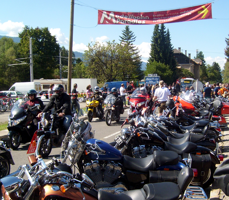 no parking lots for bikes - 5000 Harley-Davidson at FAAKERSEE - European Bike Week 2010